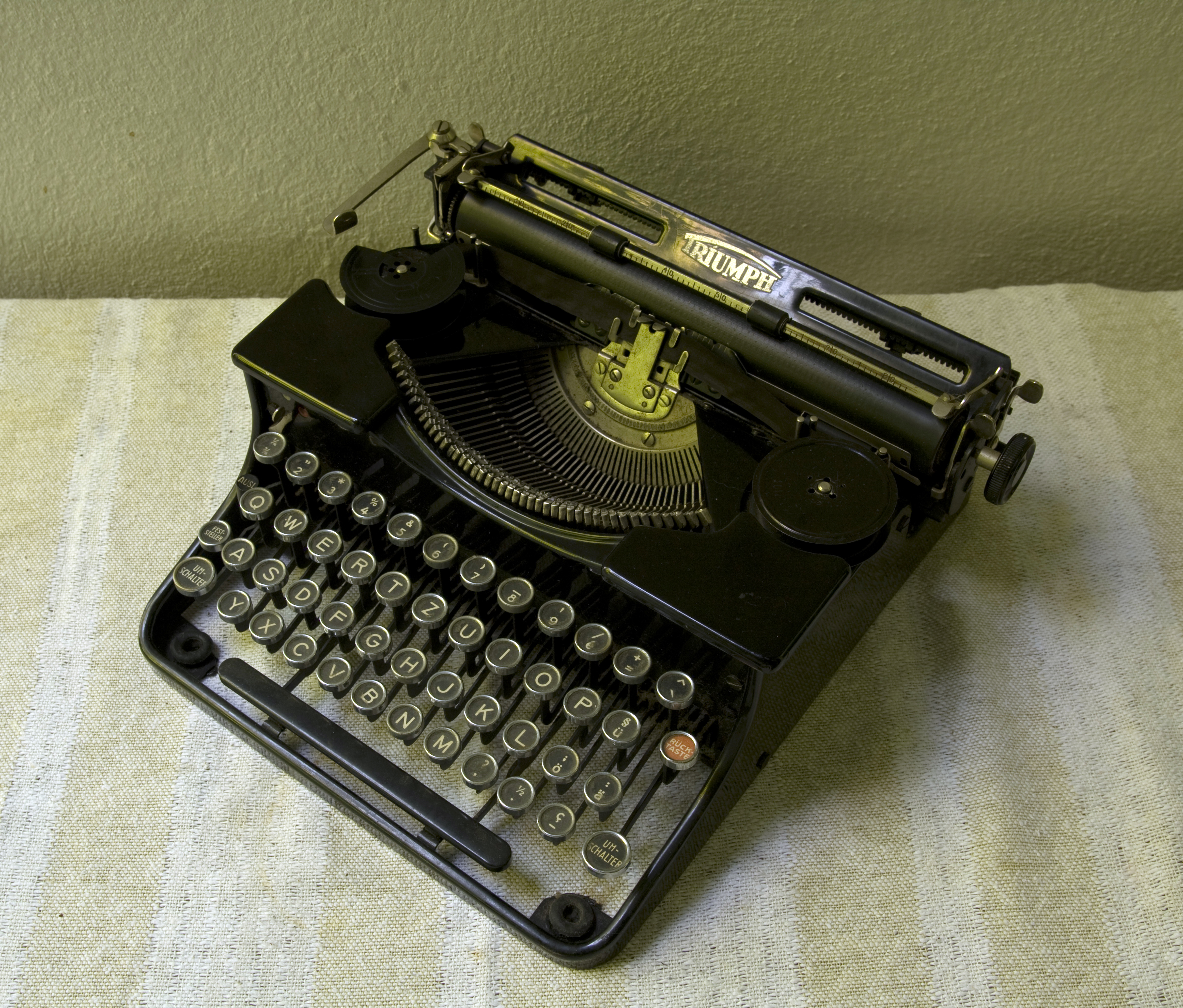 Triumph portable typewriter, "Klein-Triumph" or "Modell 1", serial number 314636. This model was produced by the Triumph-Werke Nürnberg AG from 1928 on.